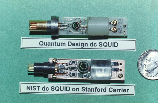 Squid prototype